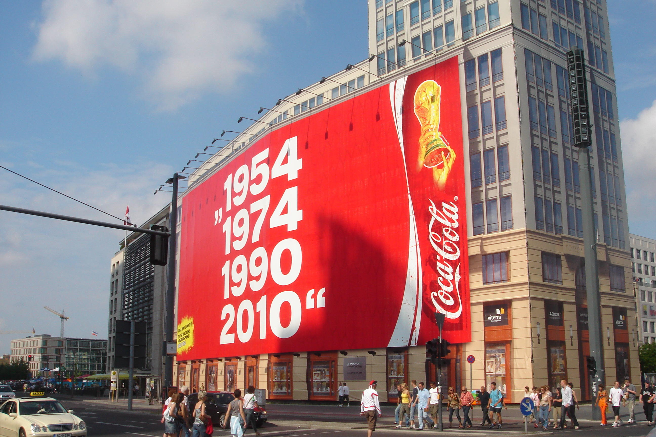 Potsdamer Platz, Berlin